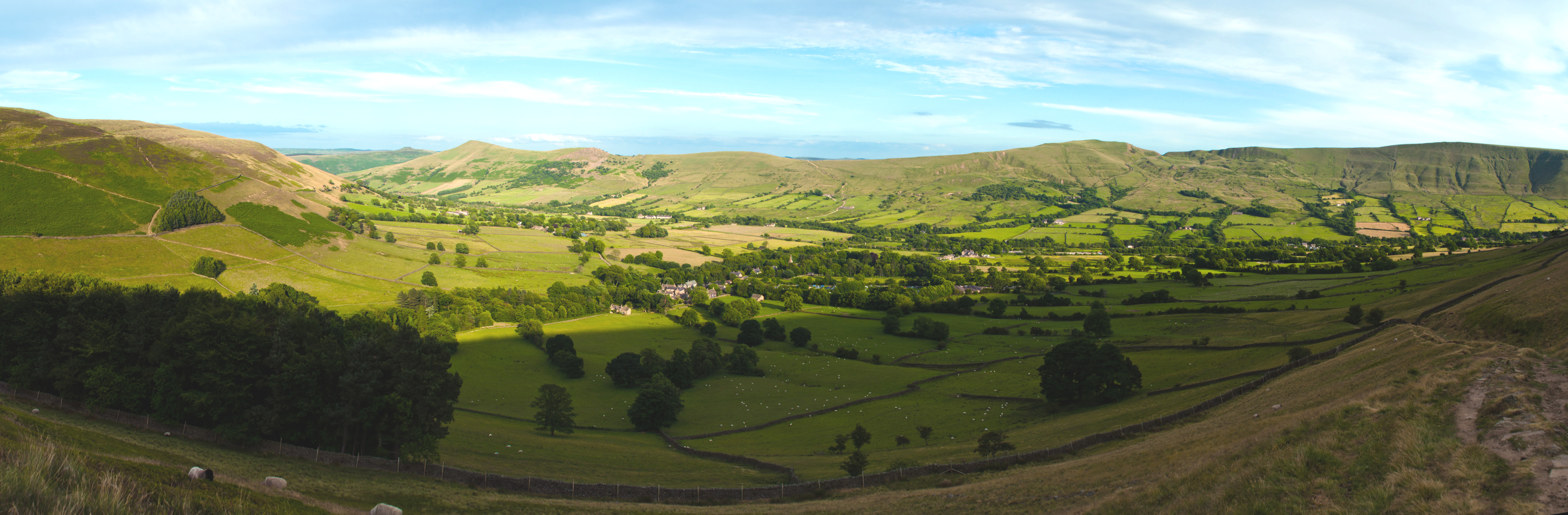 180° view of the Vale of Edale, Derbyshire UK. Edale village is in centre of picture